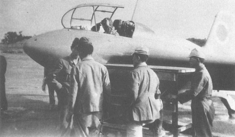 Mitsubishi J8M Shusui Sword Stroke Komet J8M-17